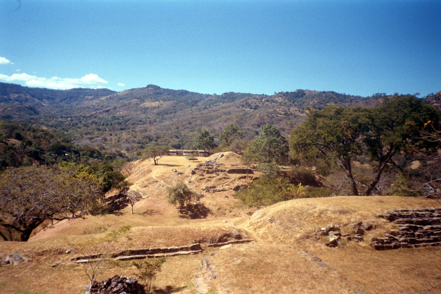 View of Mixco Viejo. Group E viewed from Group C.